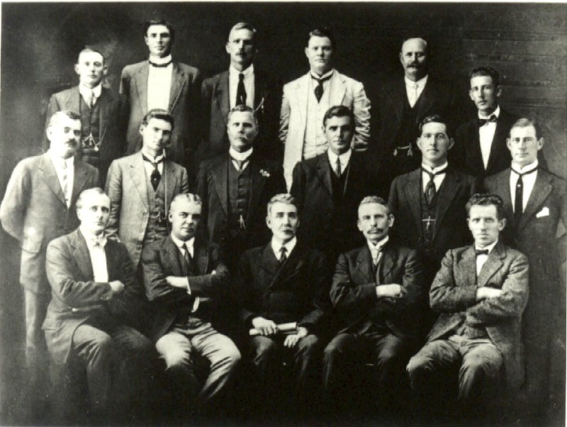 Delegates to the Queensland Police Union Third Annual Conference